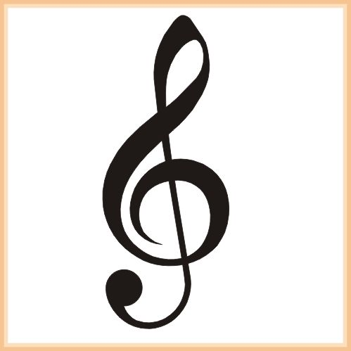 G clef.